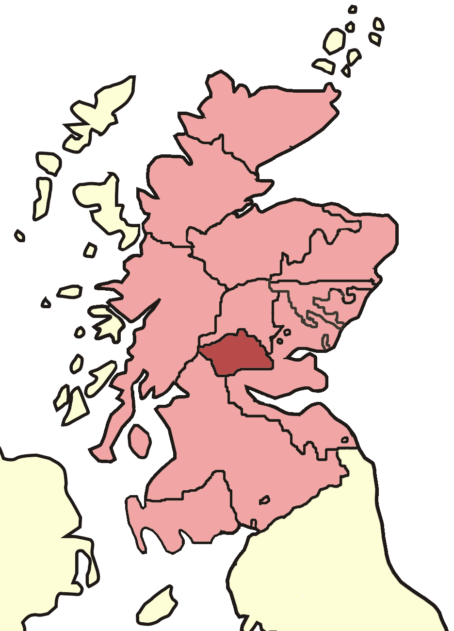 Diocese of Scotland in the reign of king David I. Based on William Forbes Skene's map of 1887.